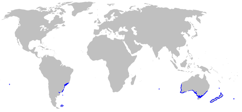 Picture made by fethroesforia.